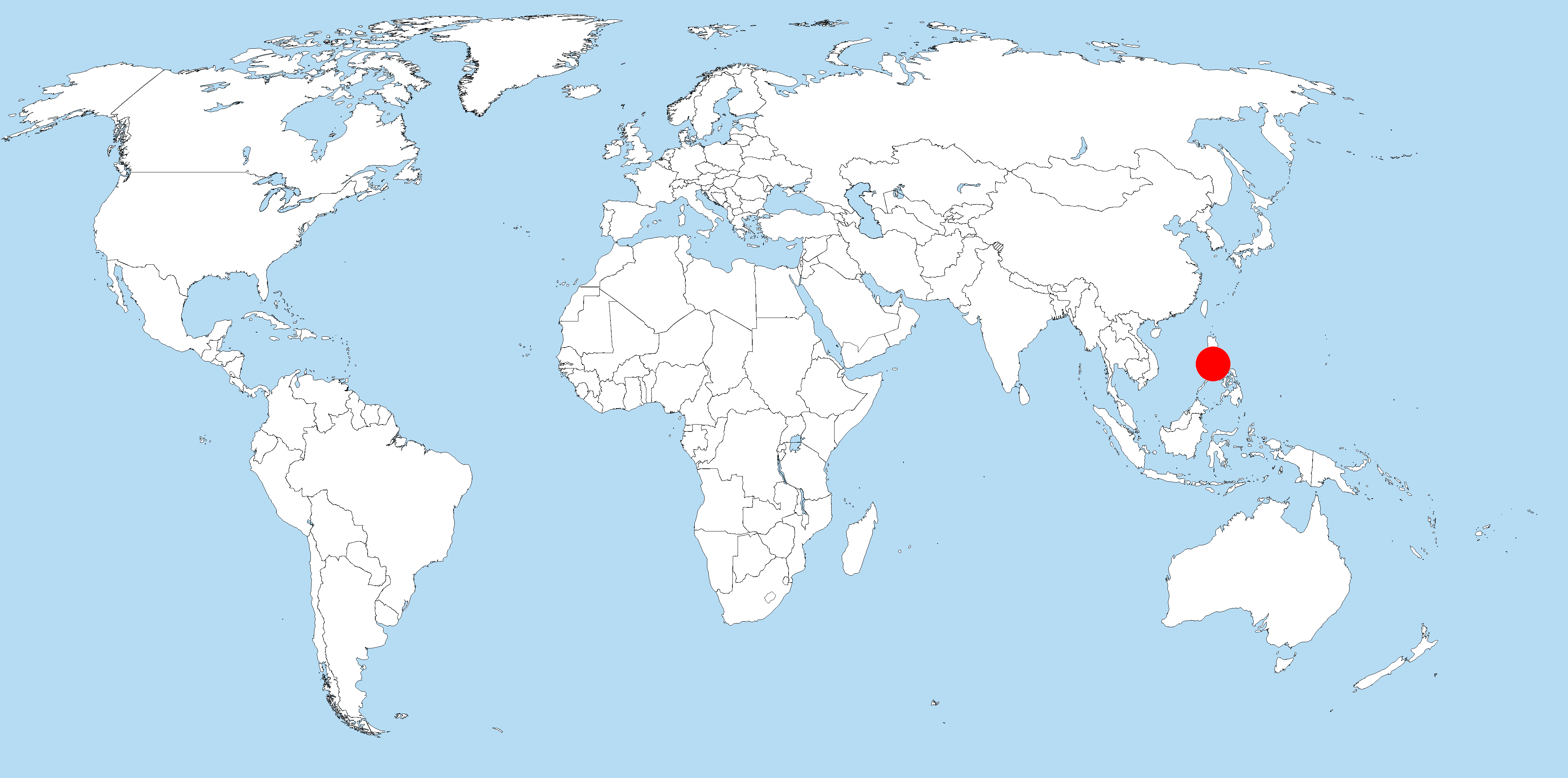 Distribution of Apomys gracilirostris (a Philippine rodent) on world scale.